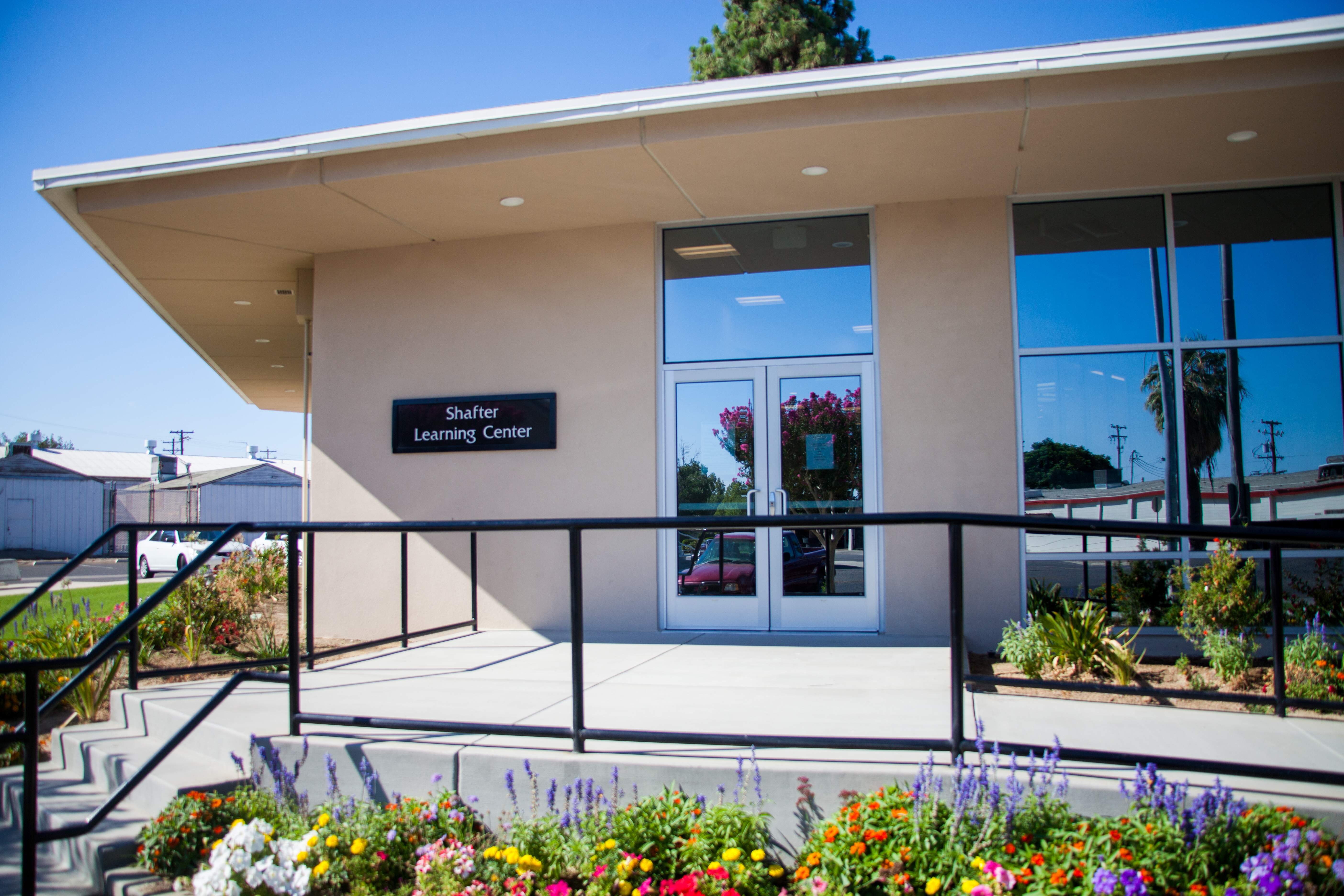 Shafter Learning Center, part of the Shafter Education Partnership, opened in June 2014